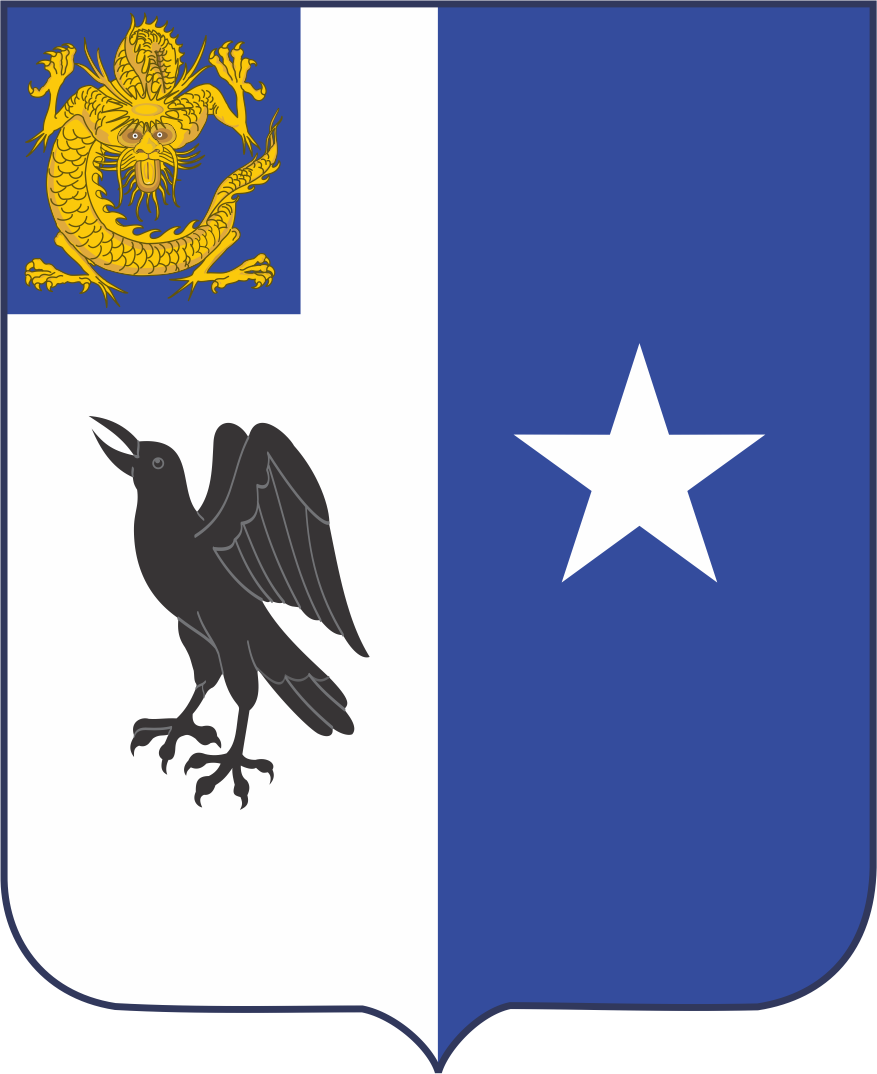 44th Infantry Regiment Coat Of Arms